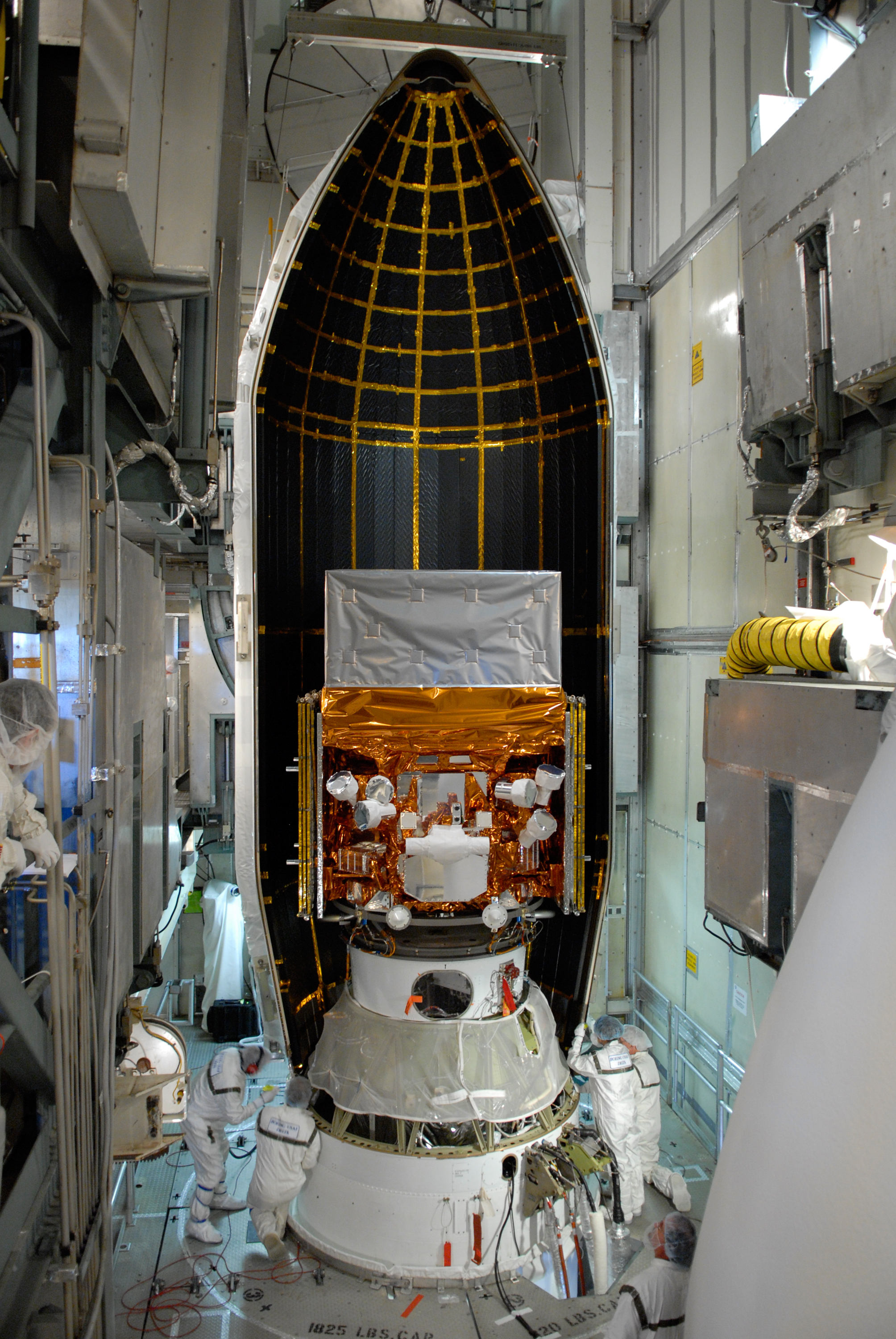 The first half of the payload fairling is installed around the Fermi Gamma-ray Space Telescope (GLAST) satellite.